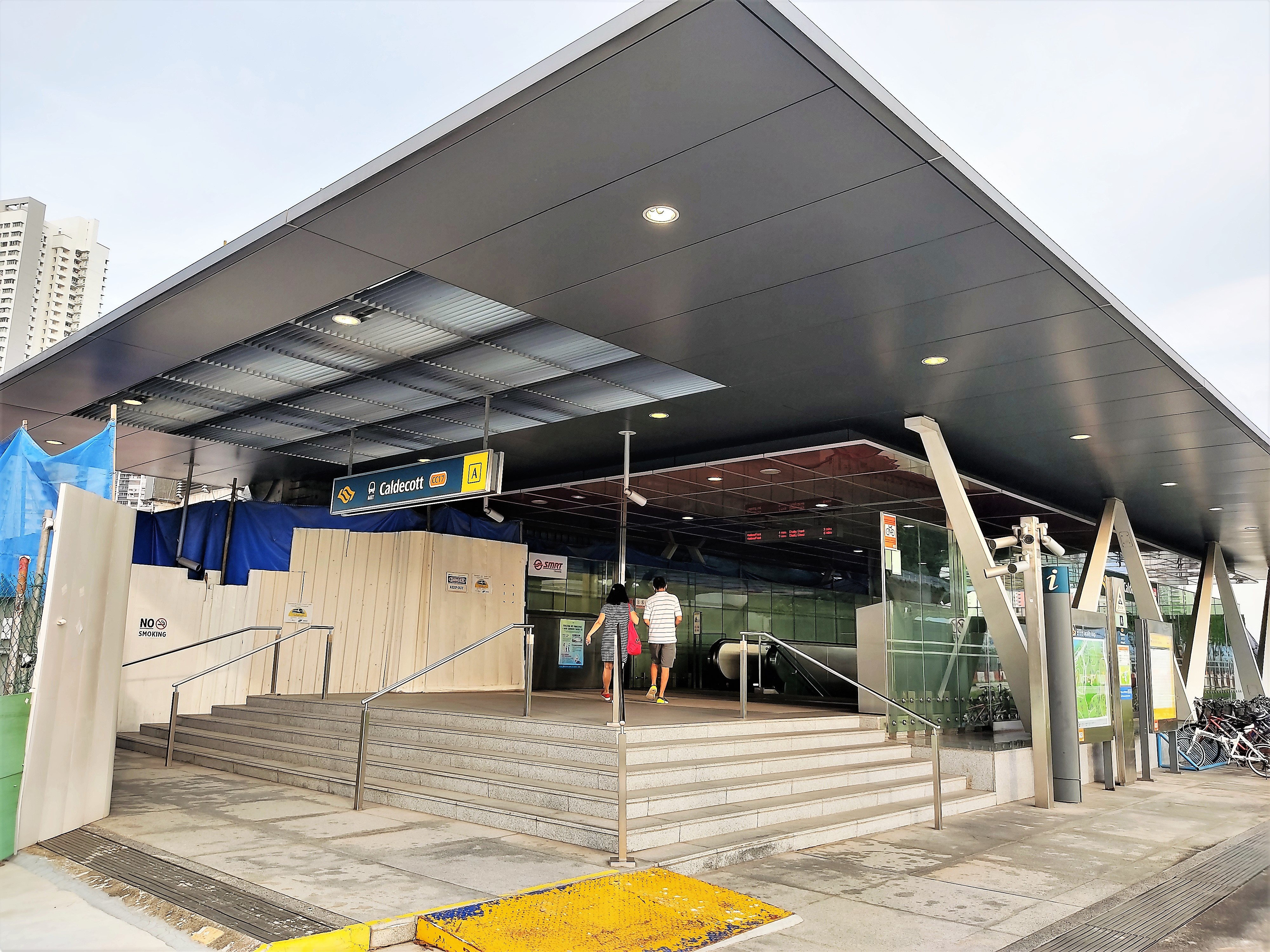 CC17 Caldecott Exit A